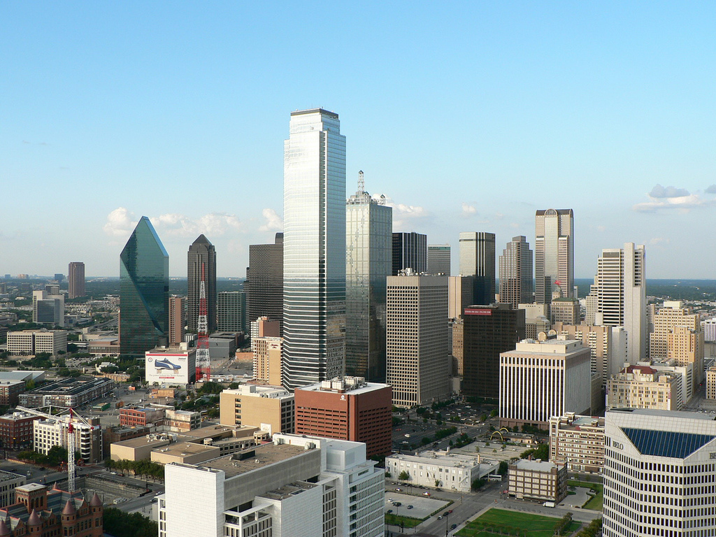 Downtown Dallas seen from Reunion Tower